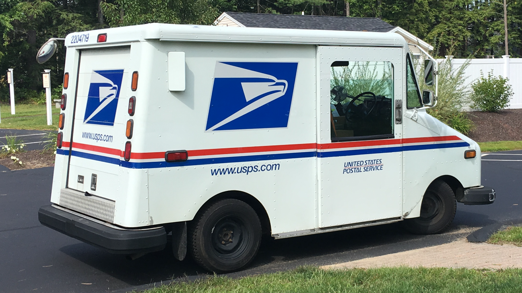 Grumman LLV in Concord, NH in 2017